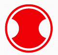 Symbol of Shionogi